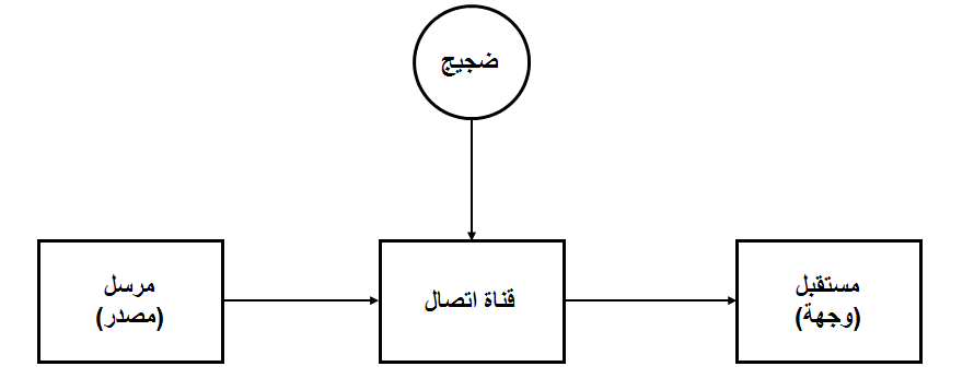 A general model for telecommunication system.